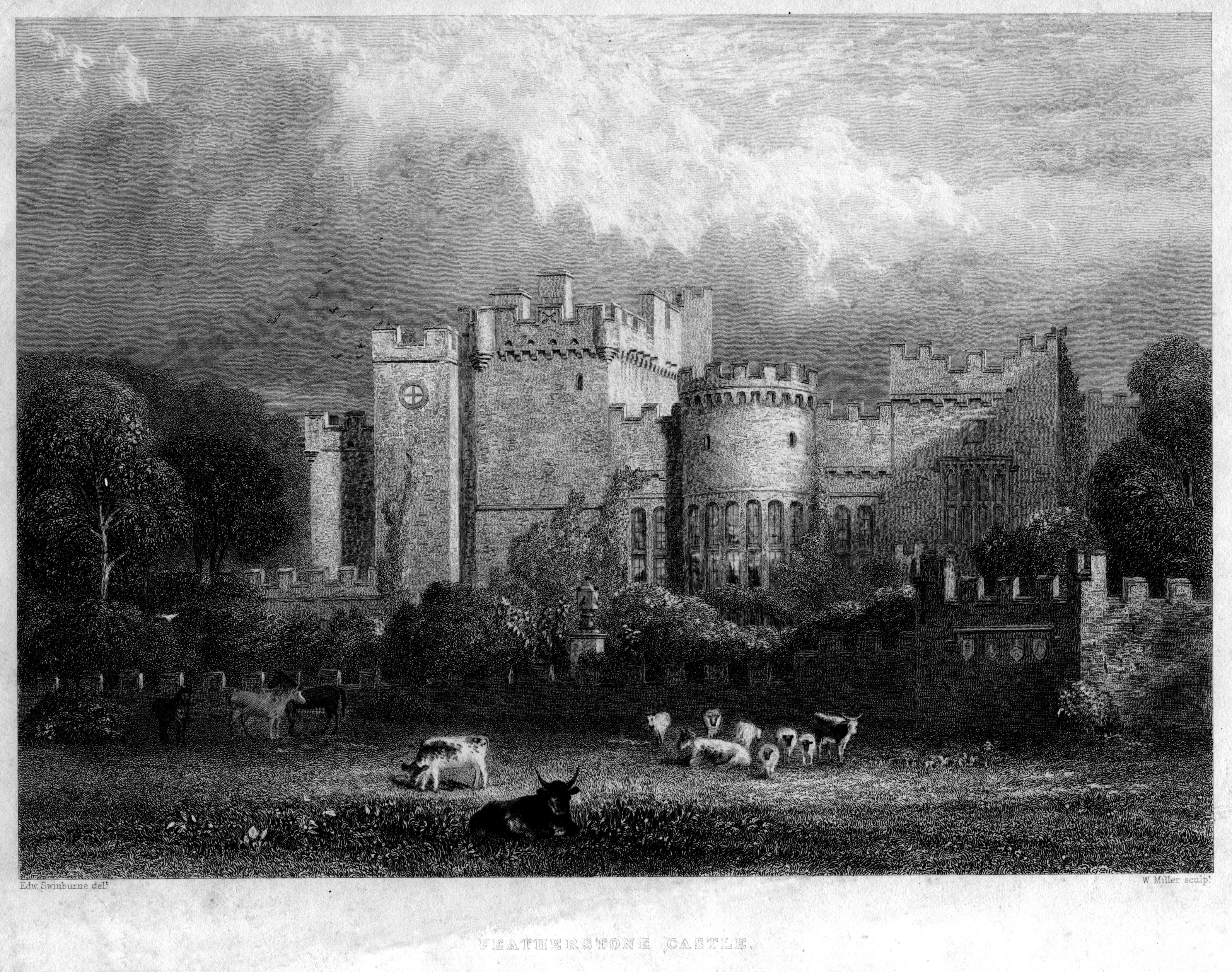 Featherstone Castle engraving by William Miller after Edward Swinburne